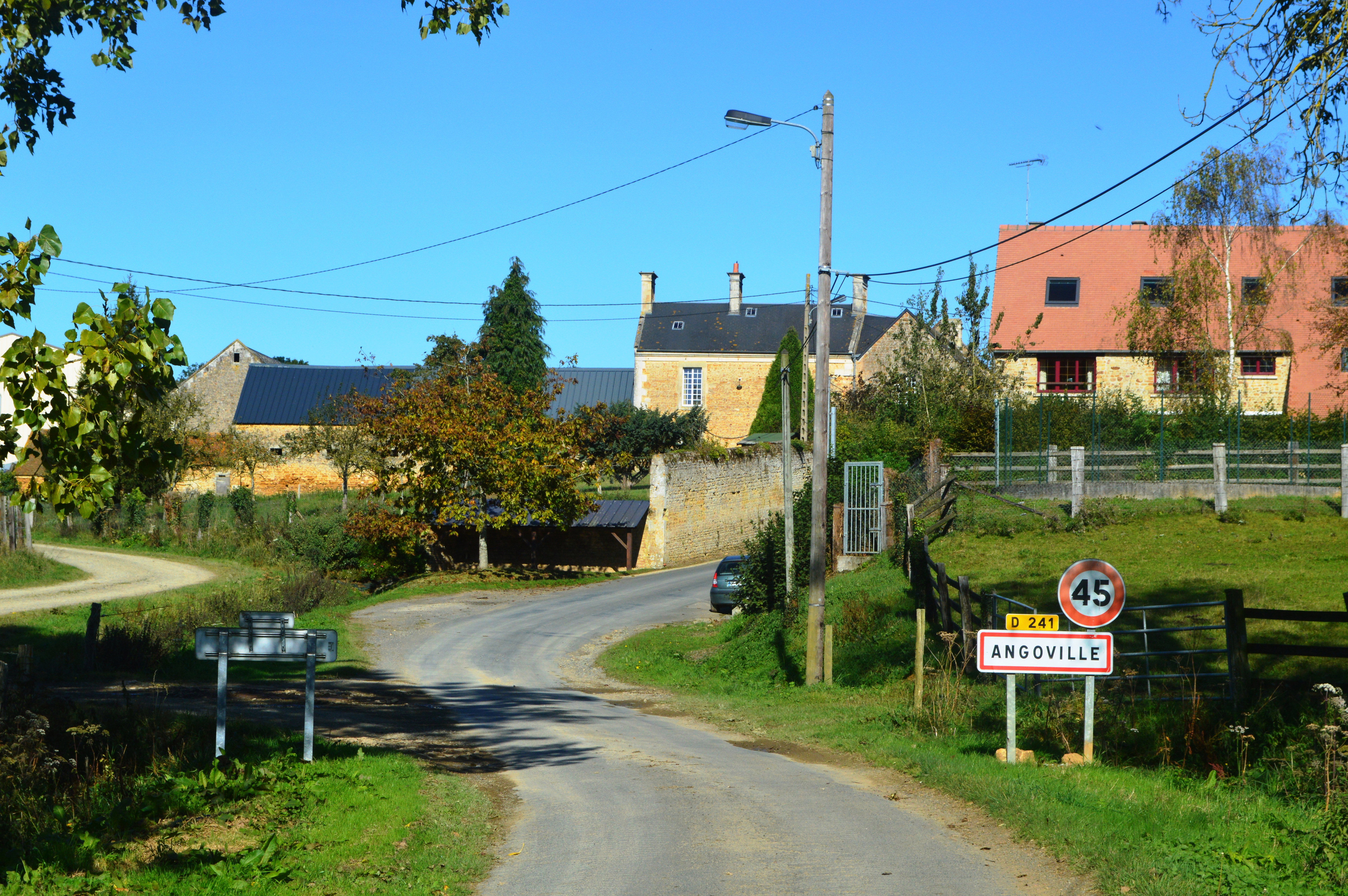 The entry to Angoville